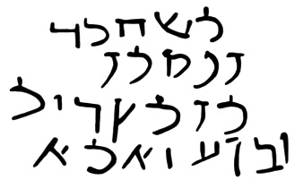 Fac simile of dipinto #3 in the Dura Europos synagogue. Aramaic inscription : "Moses, when he went out from Egypt and cleft the sea". See Torres in Kraeling 1956.